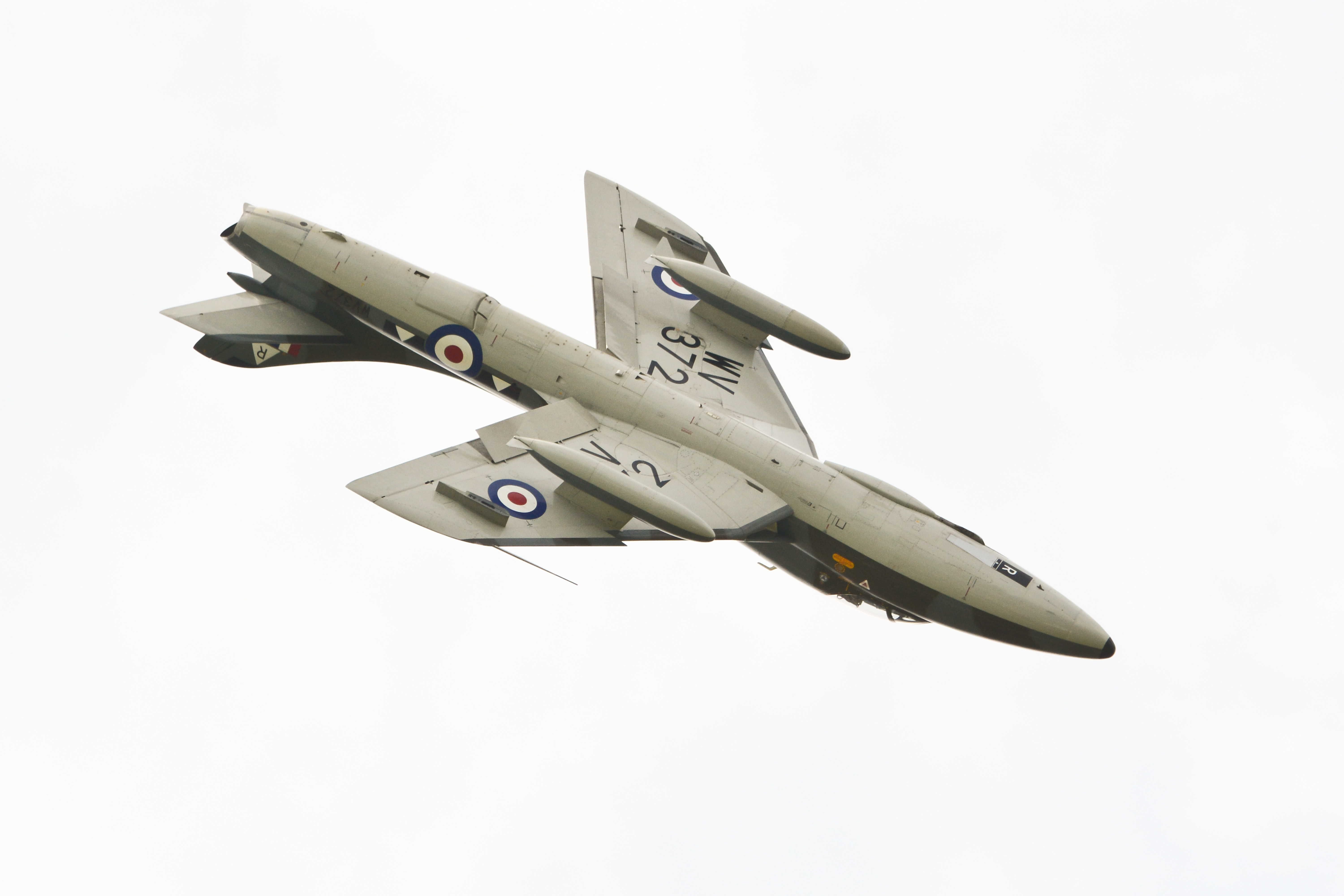 Hawker Hunter T7, Saturday 30th August 2014